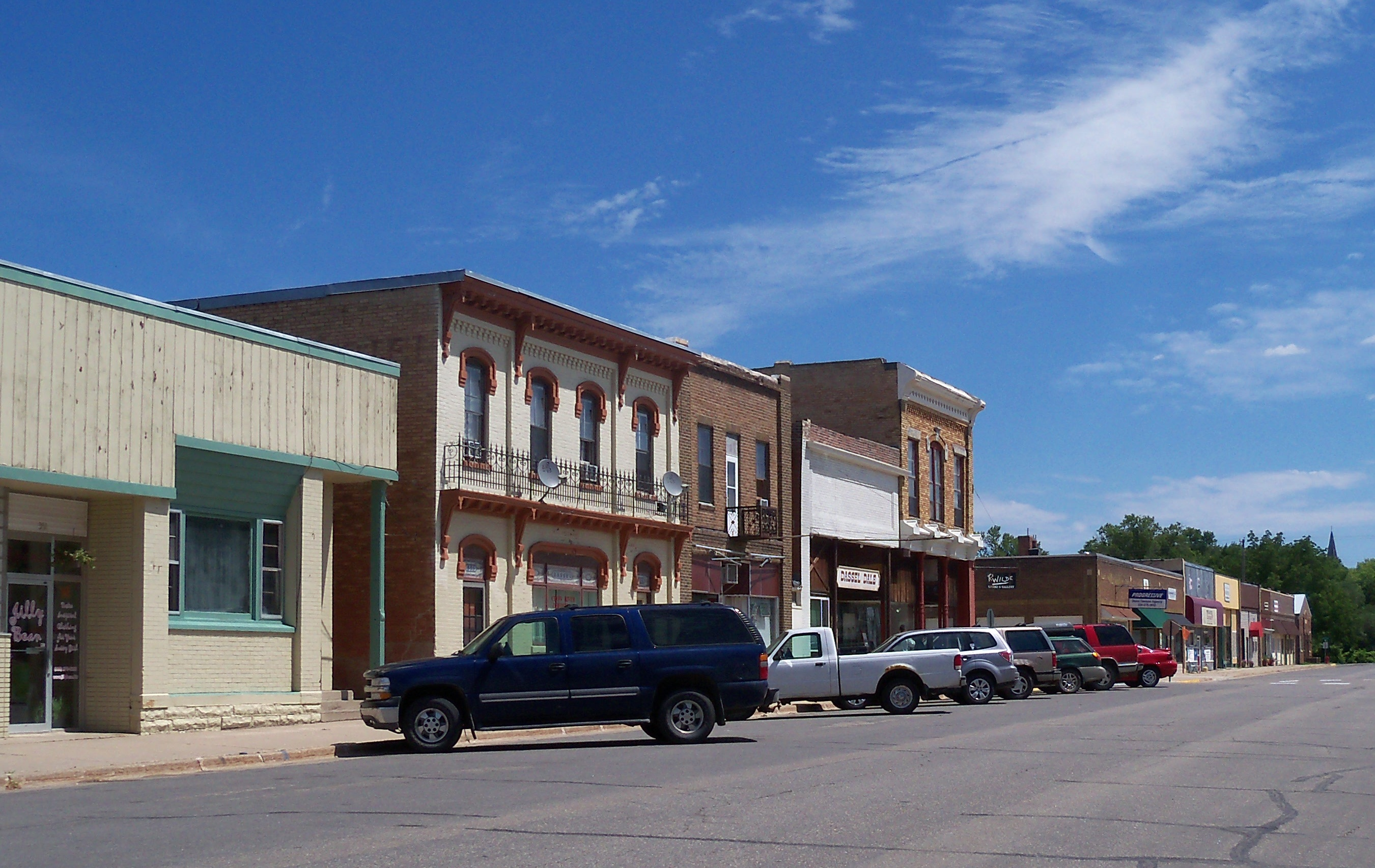 Street in Dassel, Minnesota, USA.